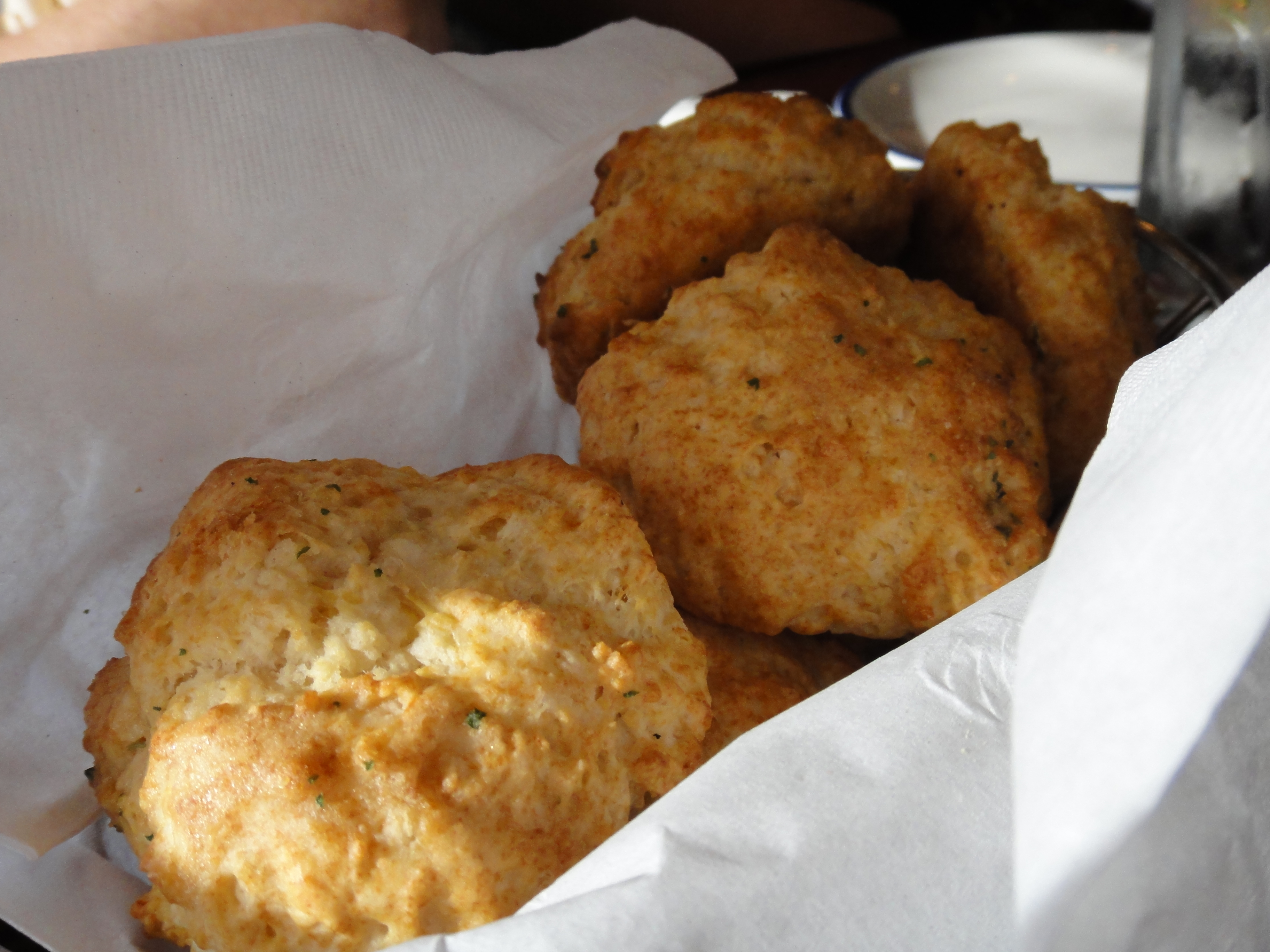 Red Lobster - Crabfest